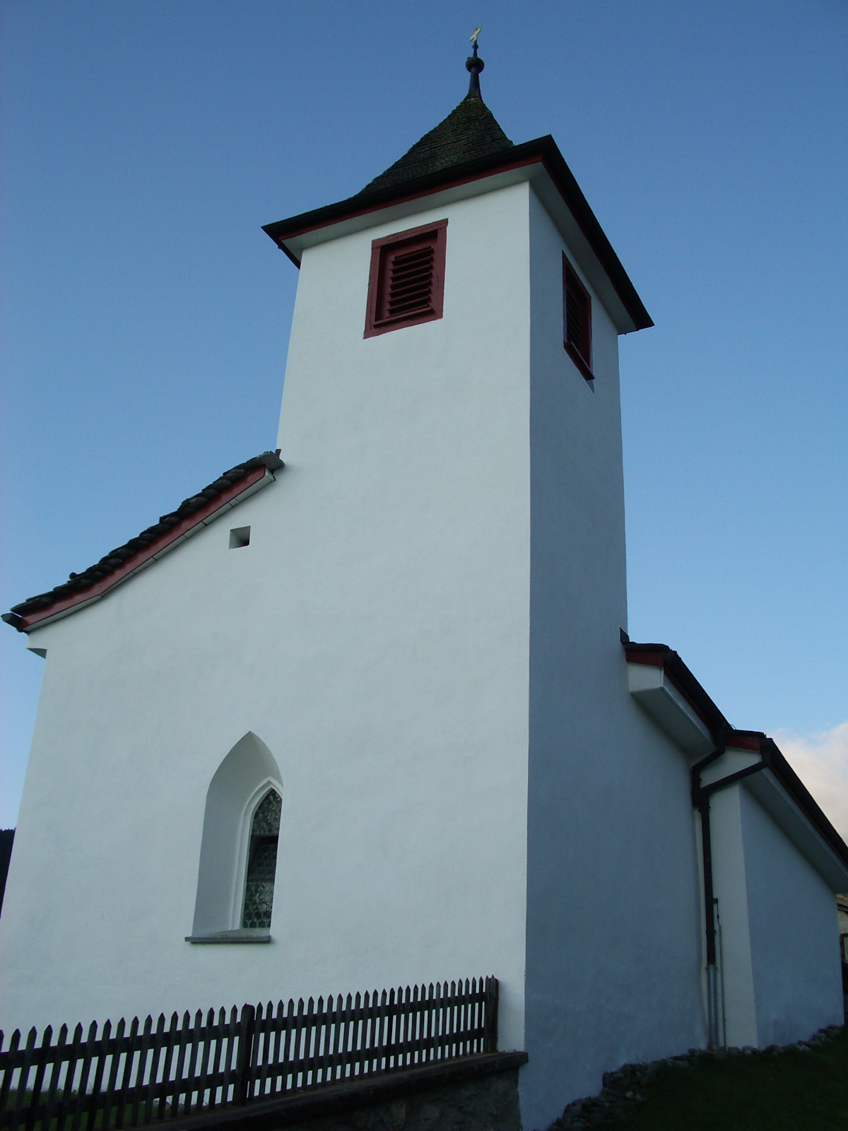 Wergenstein GR, Switzerland